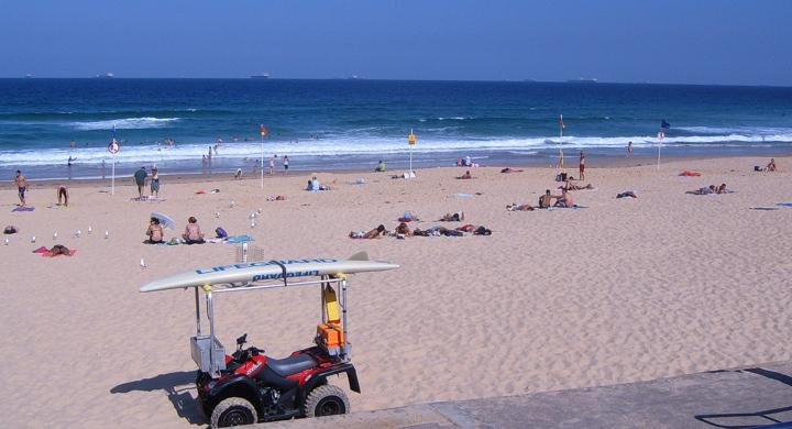 Surf lifesaving signs, main beach at Newcastle, New South Wales, Australia. The outer pair of signs limit the encroachment of surfboard riders; the inner pair of signs limits the bathing section. The central sign shows any warning to bathers. Picture taken April 2007. - Peter Ellis - Talk 18:52, 24 April 2007 (UTC)